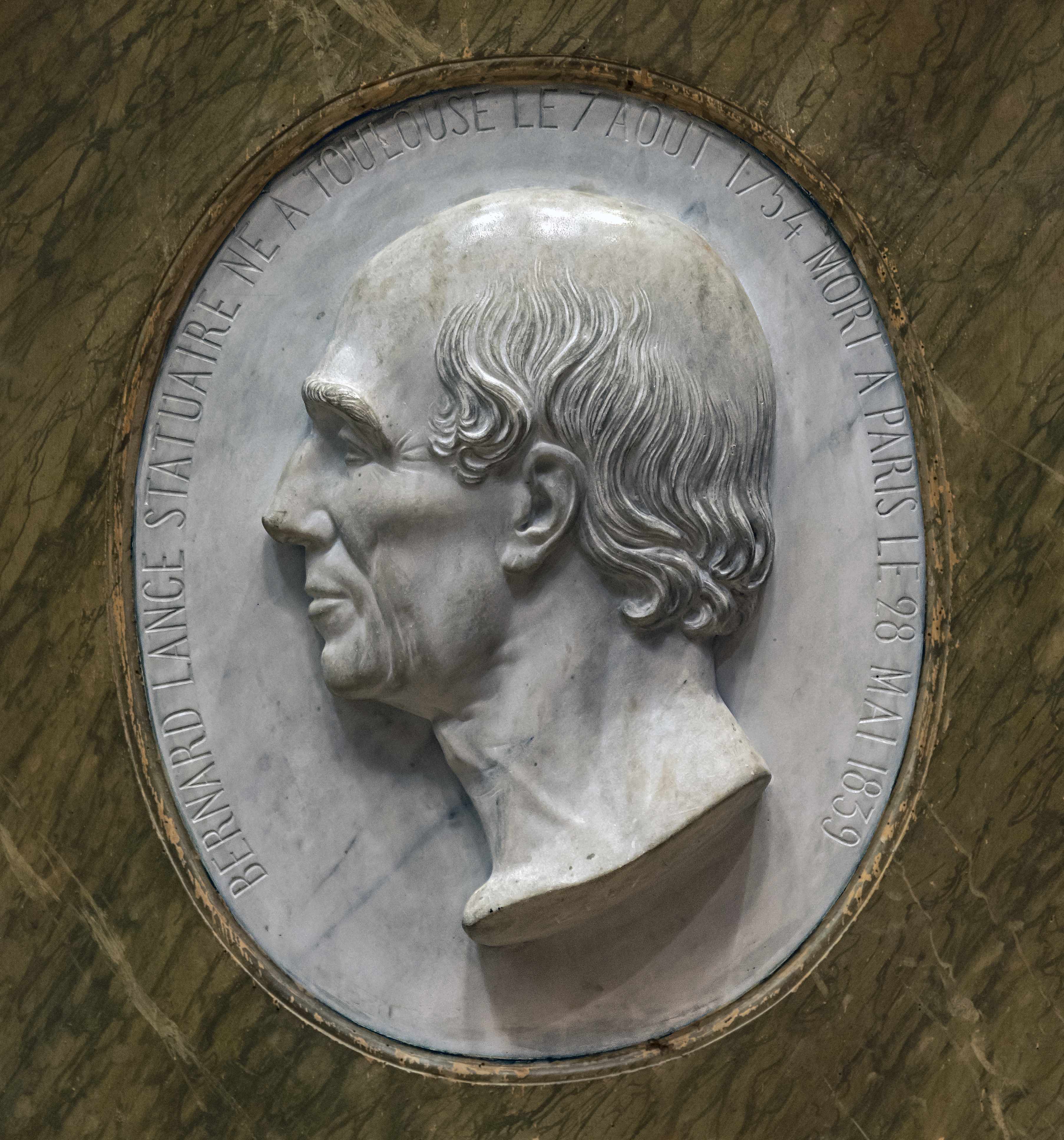 Depicted person: Bernard Lange – French sculptor